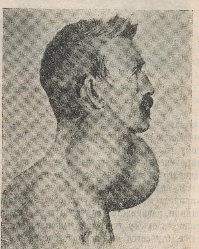 Illustration of thyroid cancer to the article written by E. Liadov. Published in Niva magazine, April 1914.